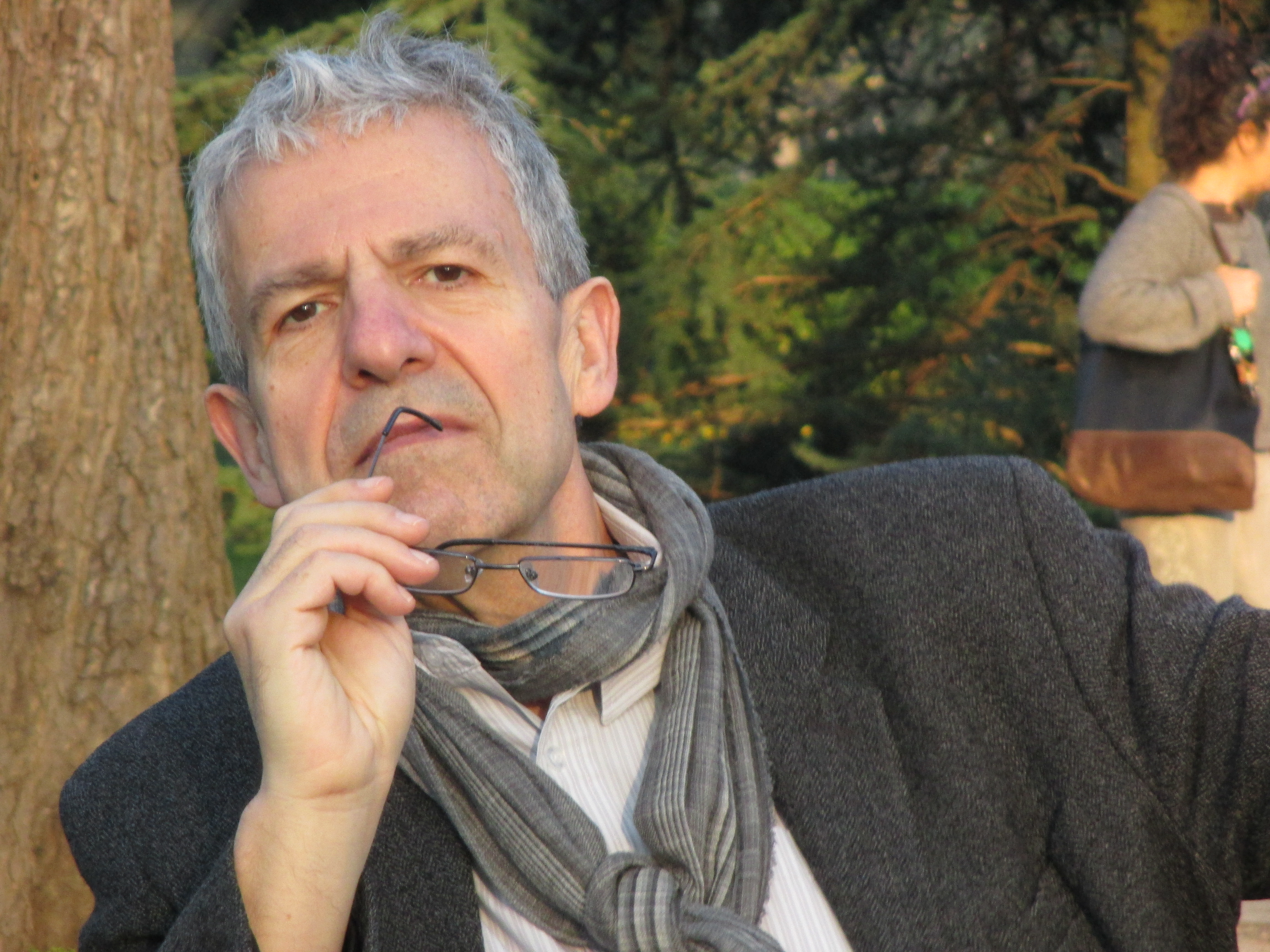 Prof. Vuillemin au Jardin du Luxembourg, Paris